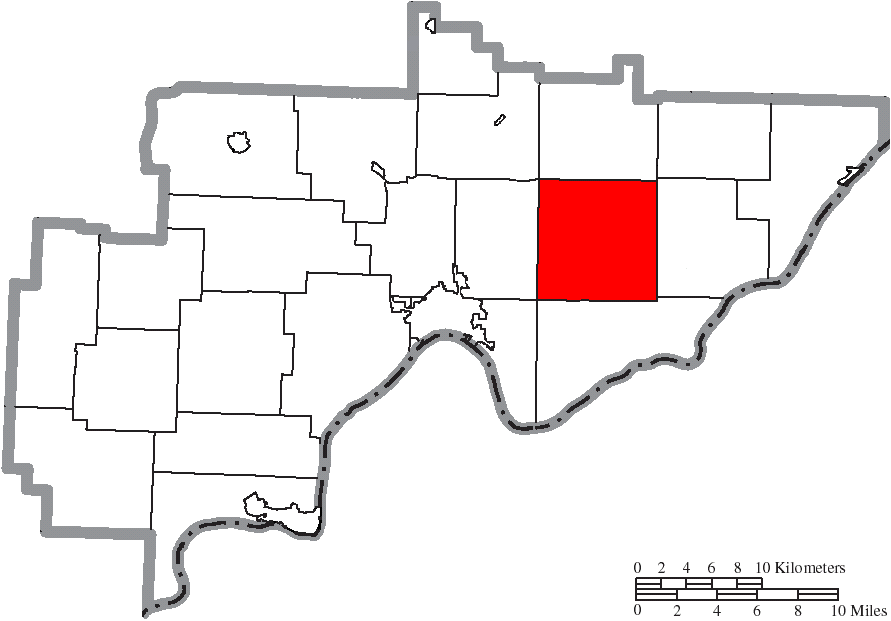 Map of the municipal and township boundaries of Washington County, Ohio, United States, as of the 2000 census, with the location of Lawrence Township highlighted. Township borders are shown only in unincorporated areas in order to differentiate incorporated and unincorporated areas more clearly.